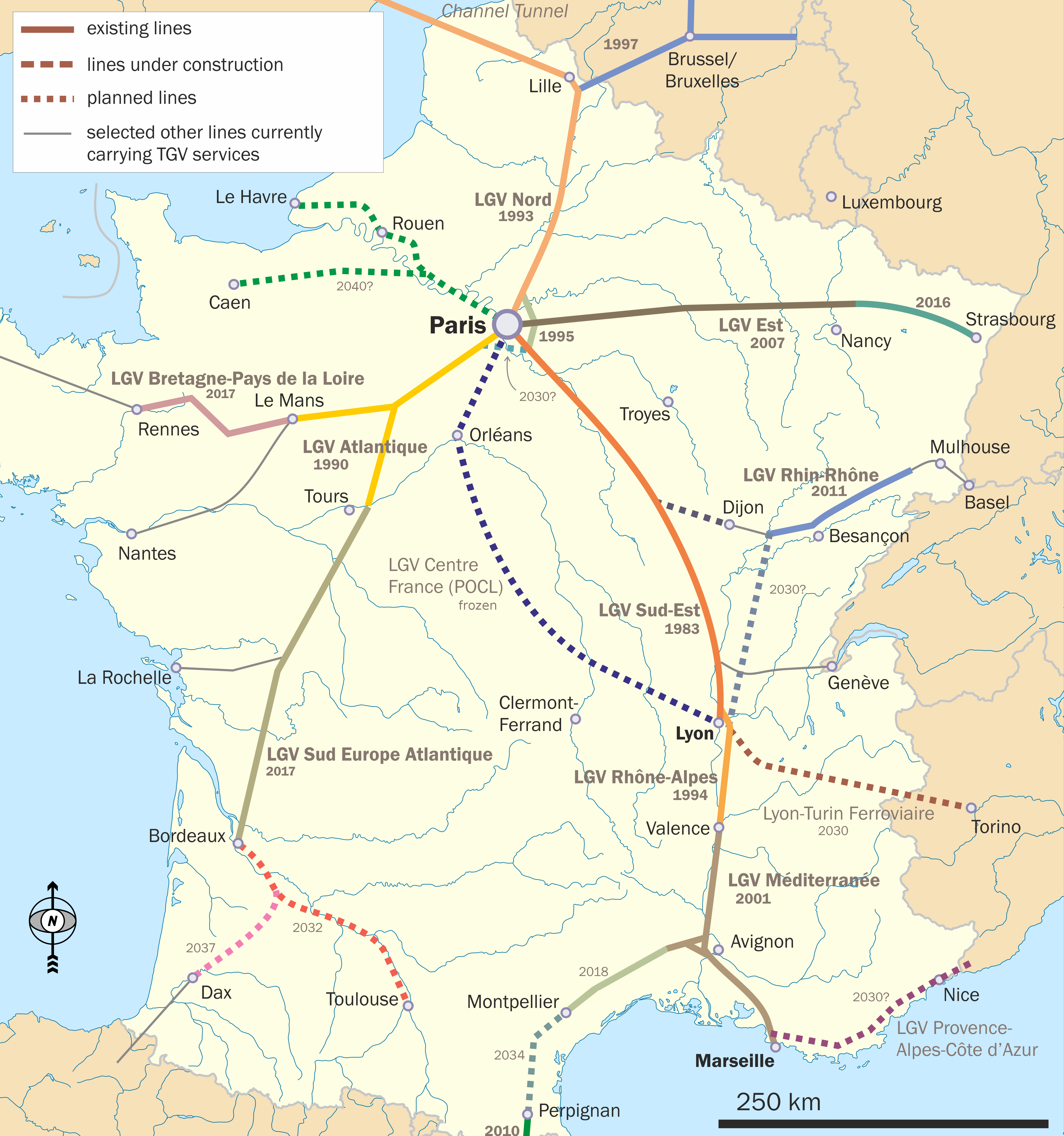 Map of French TGV lines in use and under construction. Original intention is to show the location of the Rhin-Rhone TGV.